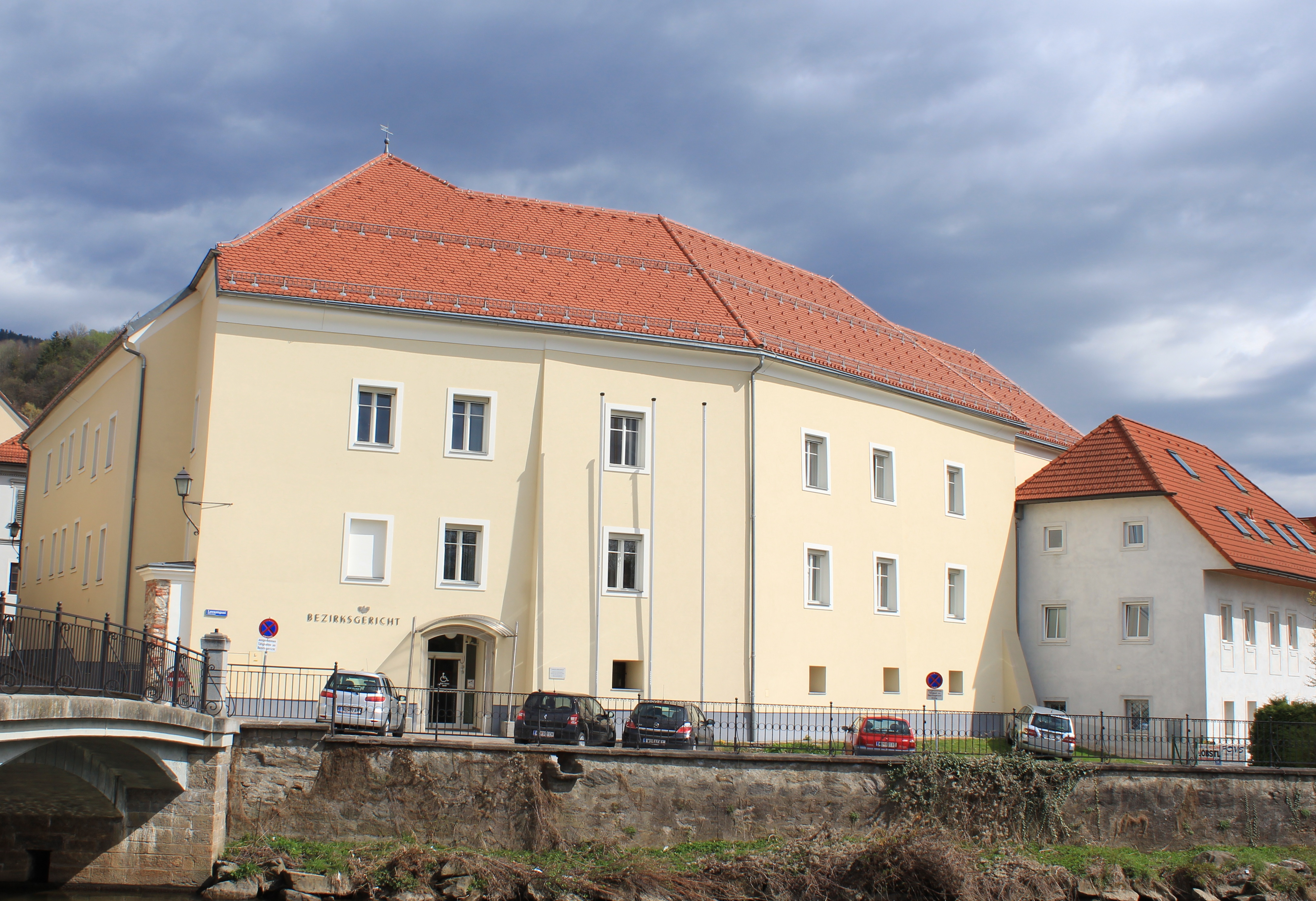 District court in the community of Wolfsberg